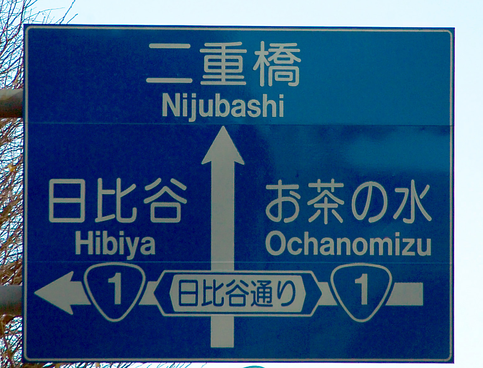 Japan's National Route 1 passes in front of the Imperial Palace in Tokyo. Left: Hibiya; right: Ochanomizu; straight ahead: Nijubashi.